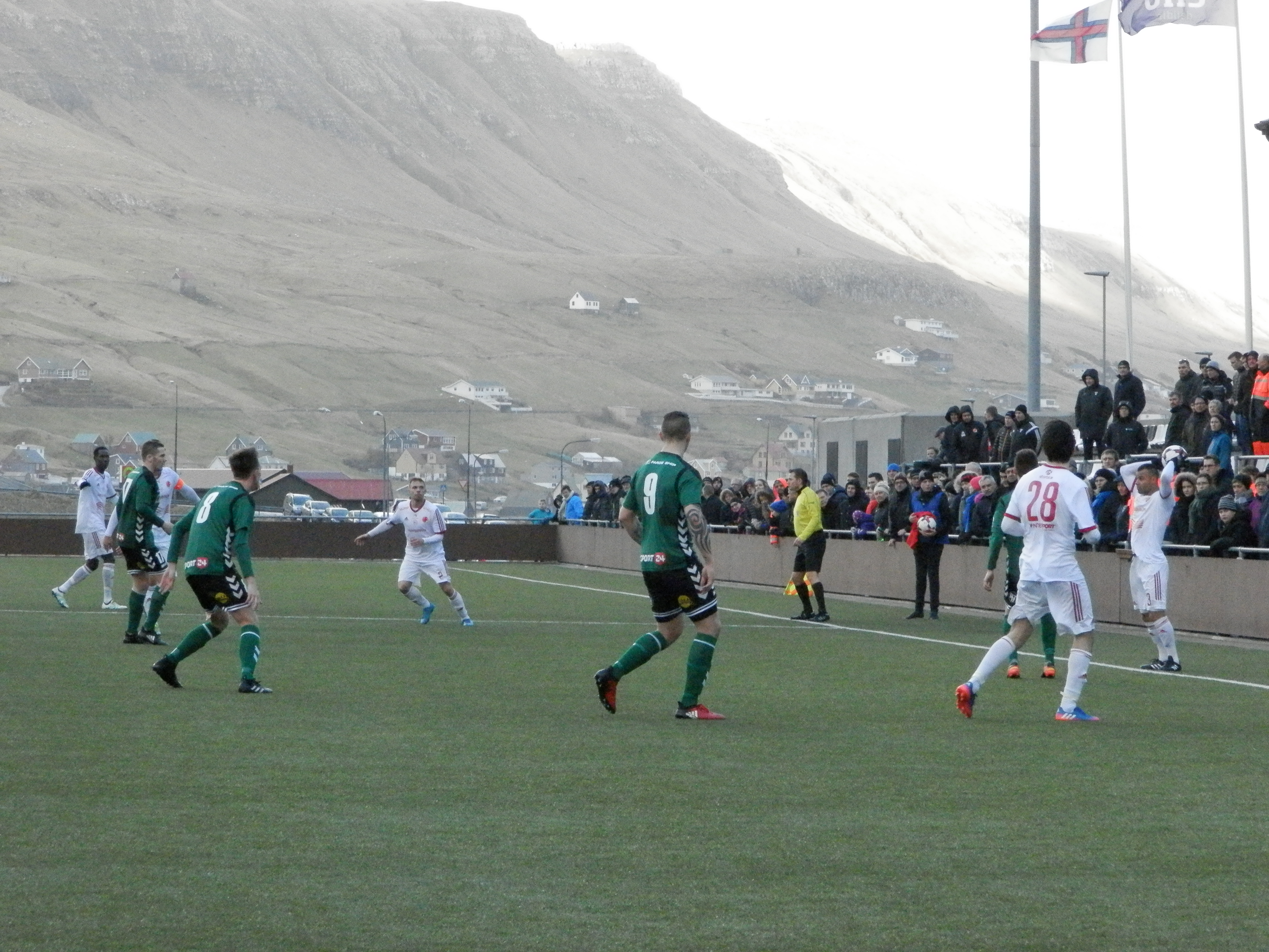 In December 2016 it was decided that the three football clubs of the island Suðuroy would merge into one club. The merger will not be complete until 2018, but they will play as one club in 2017 with the name of all three clubs: TB/FC Suðuroy/Royn. Amongst the fans they are simply called Suðringar (ringar) which means people from Suðuroy. They played their first match in the top tier on 12 March 2017 against ÍF Fuglafjørður on their home field at Við Stórá Stadium inTrongisvágur. They won the match 2-1.